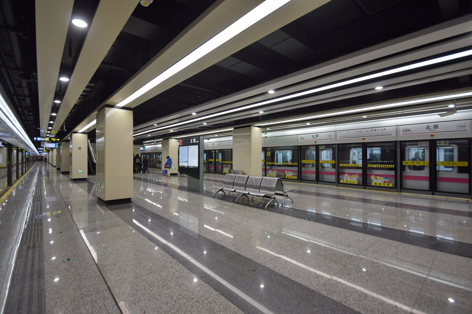 Line 13 Platform of Beicai Station, Shanghai Metro